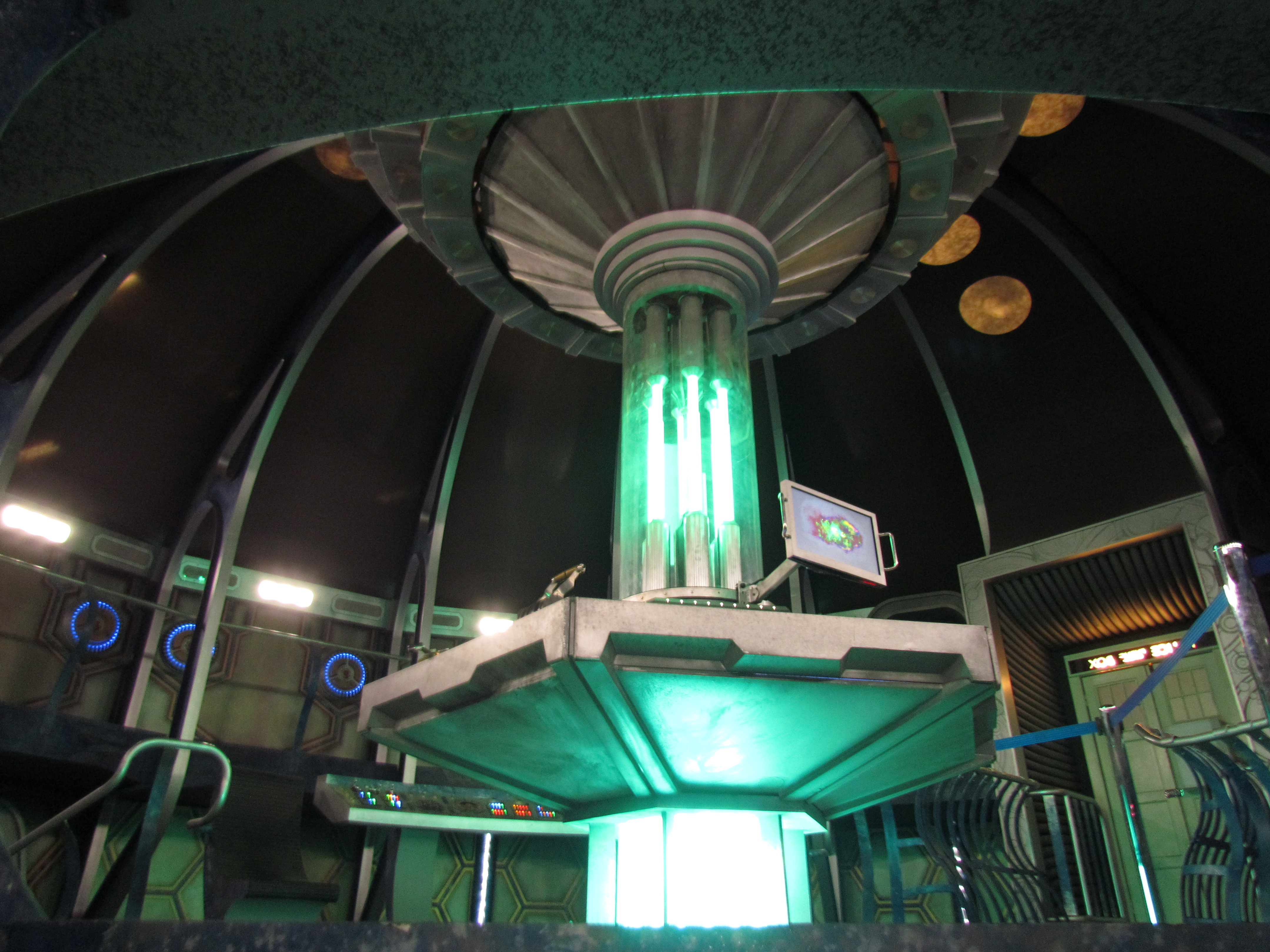 The TARDIS Console Room Doctor Who TARDIS set